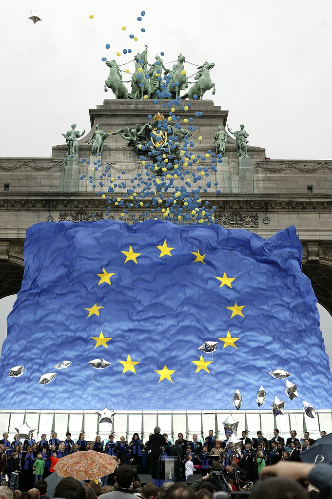 Celebrations in Brussels as ten former Eastern Bloc countries in Eastern Europe (Cyprus, Czech Republic, Estonia, Hungary, Latvia, Lithuania, Malta, Poland, Slovakia and Slovenia) acceeded the European Union.[1]